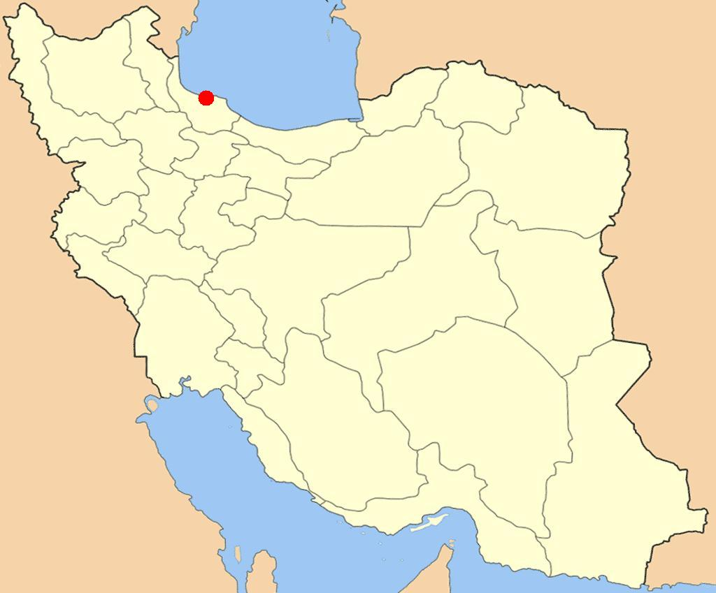 Bandar-e Anzali